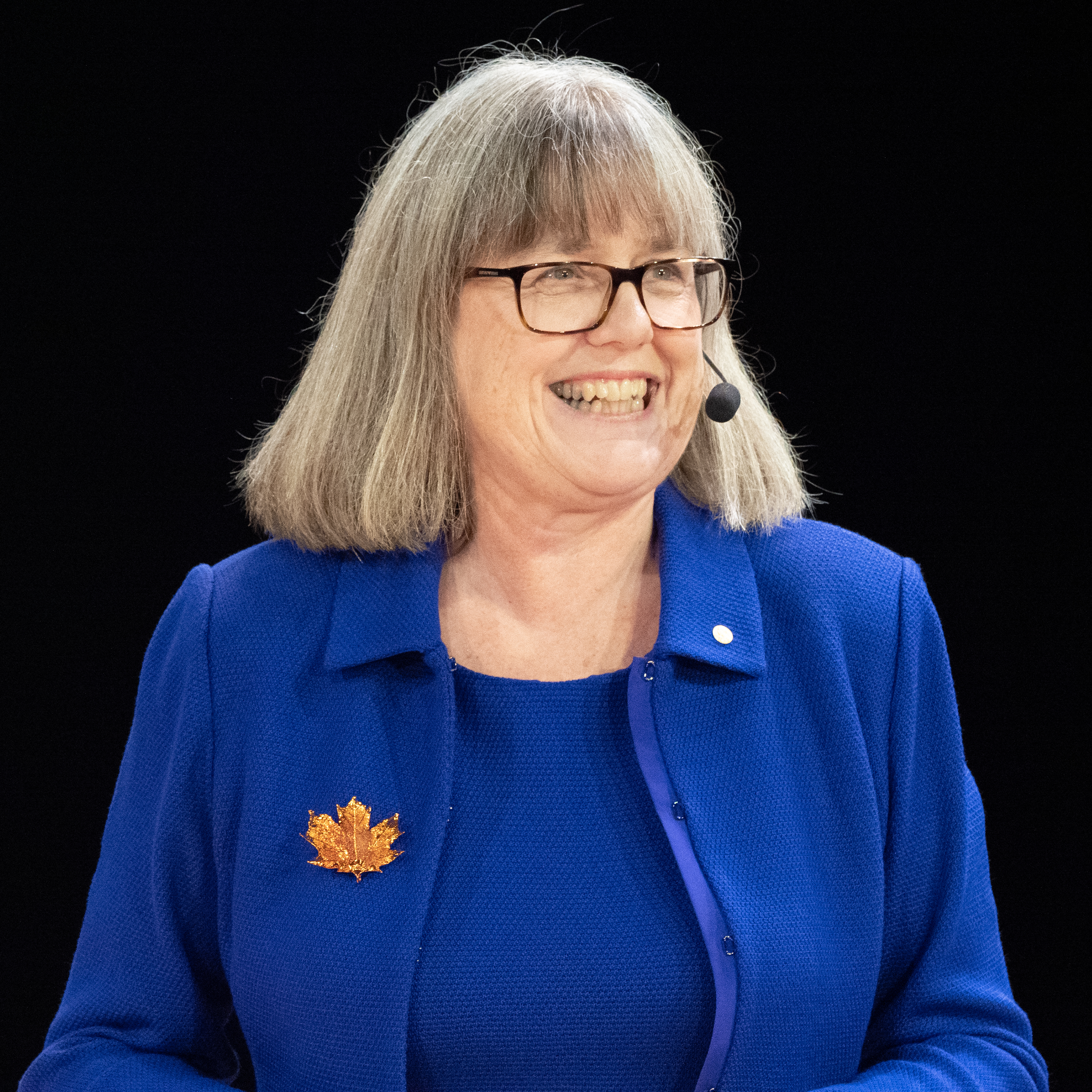 Nobel Laureates in Physics 2018, Stockholm, Sweden, December 2018